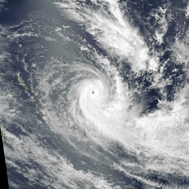 Tropical Cyclone Sina on November 27, 1990